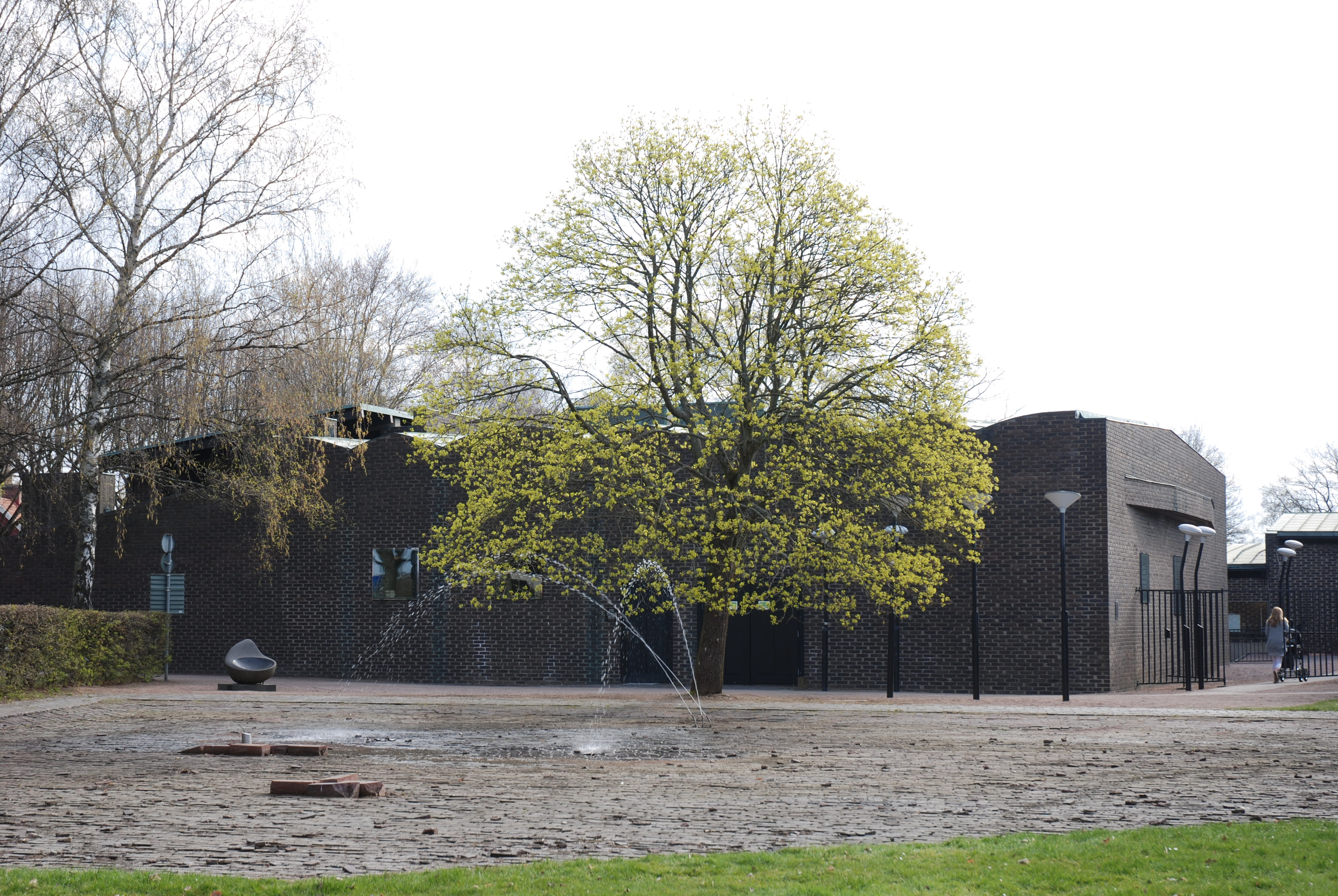 S:t Petri Church, Klippan, Sweden. Architect: Sigurd Lewerentz